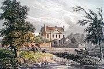 Sir Joseph Banks' house in 1815